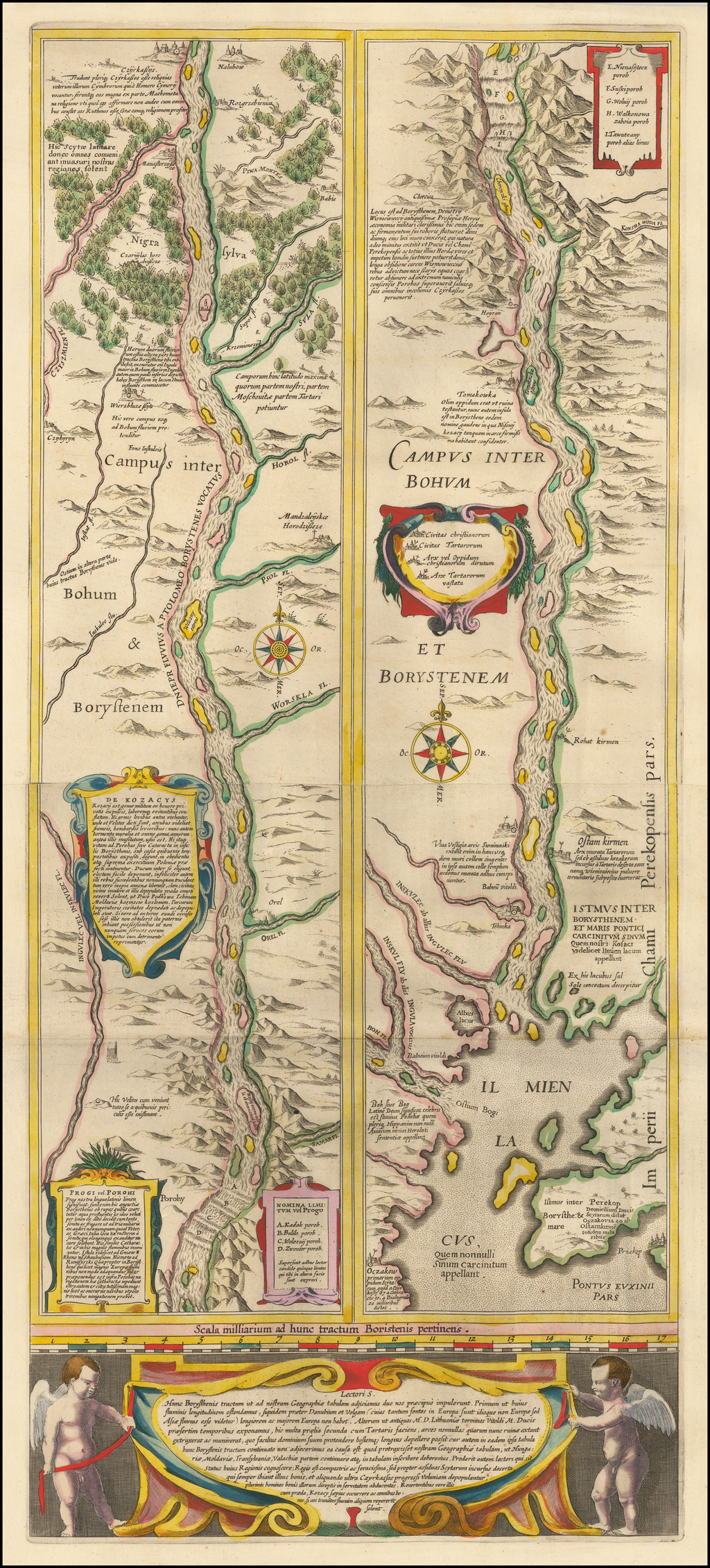 Map of the lower course of Dnieper River